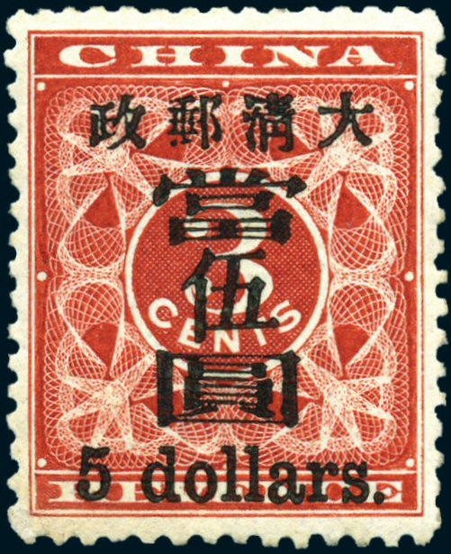 Red 5